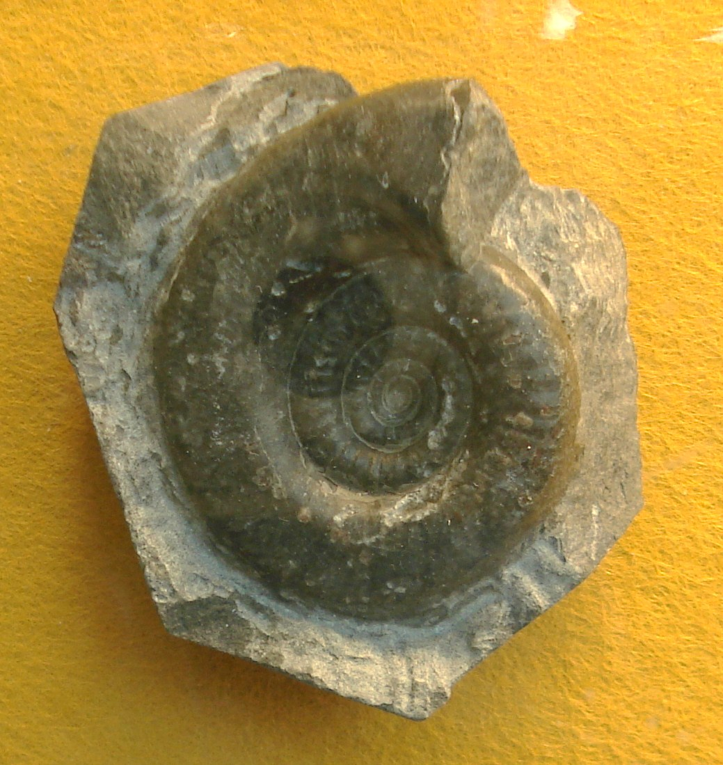 fossil of Clymenia